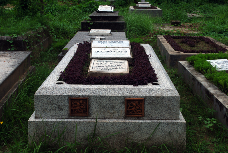 David McCutchion's Epitaph